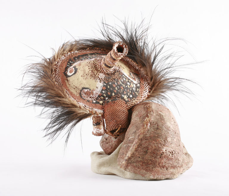 A Feathered shell and basketry brideprice in the permanent collection of The Children’s Museum of Indianapolis.